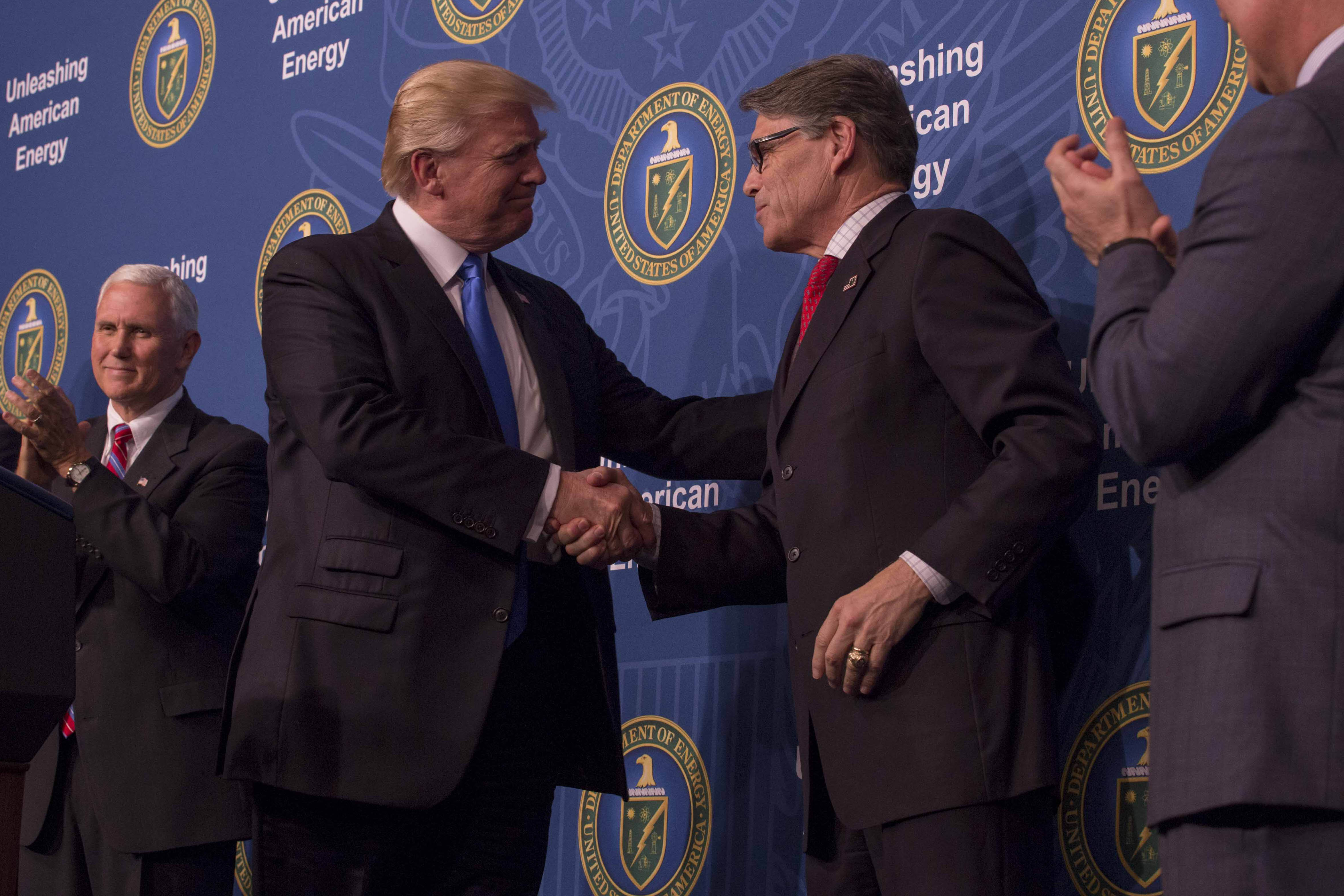 President Donald Trump give remarks at the Unleashing American Energy event at Energy Department headquarters. June 29, 2017 Photo Simon Edelman, Energy Department